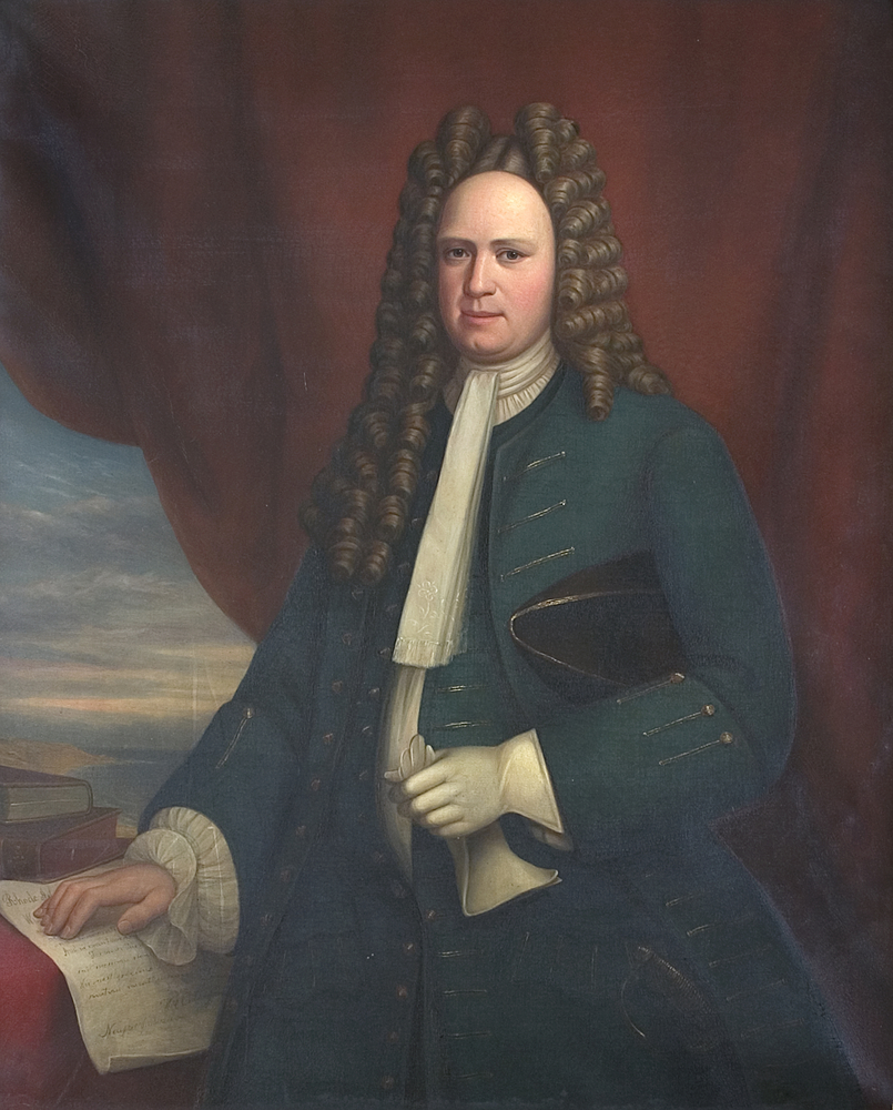 "William Coddington (1680-1755)," oil on canvas, portrait by Thomas Mathewson. Courtesy of the Brown University Portrait Collection, Brown University, Providence, R.I.